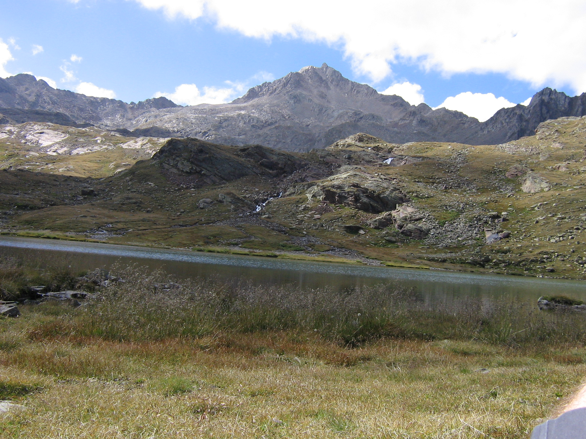 Alps of Lombardy: Corno dei Tre Signori (3360 m) seen from Lake Ercavallo (2600 m), ESE.